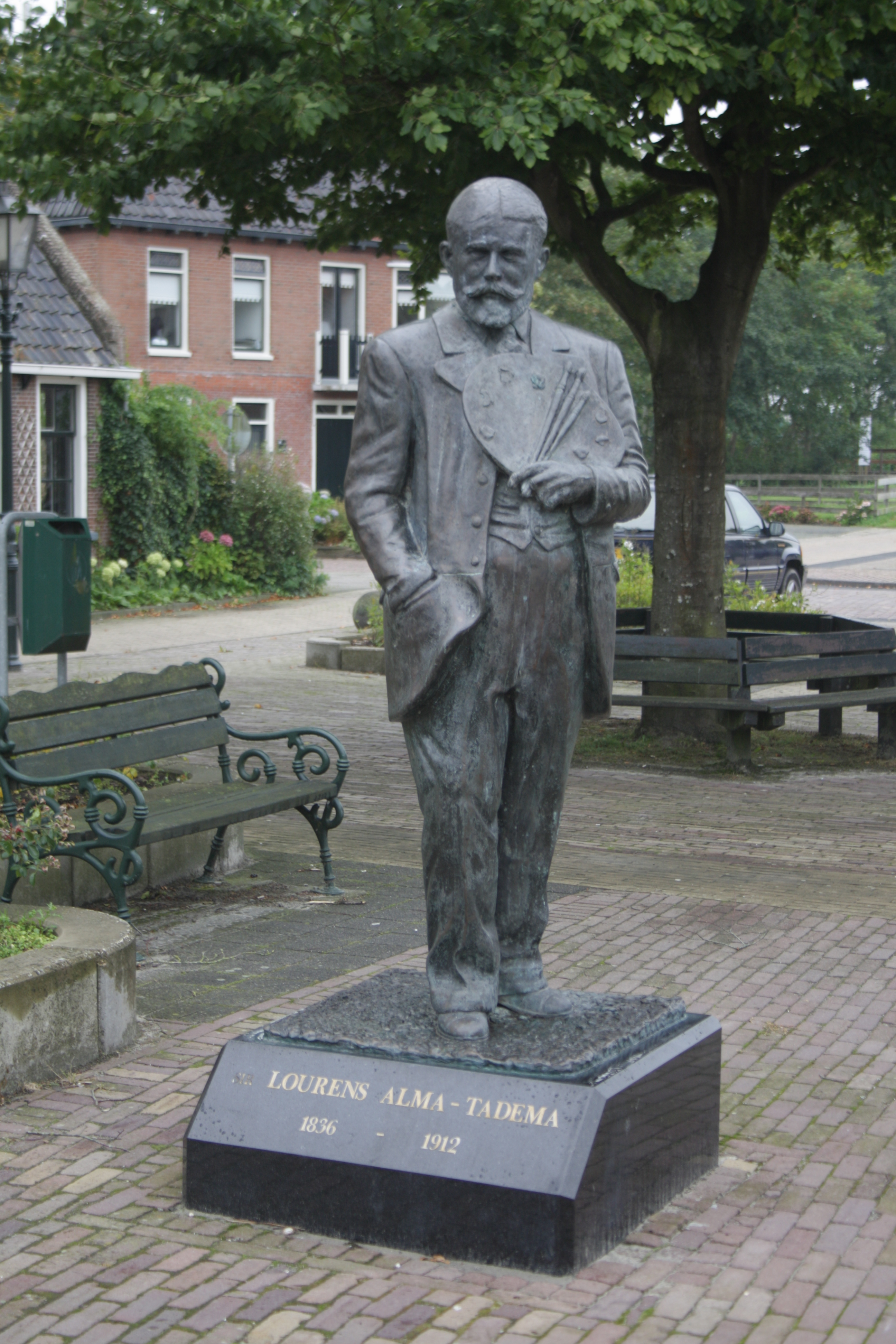 Statue of Sir Lawrence Alma-Tadema in his birth village Dronrijp, Friesland, The Netherlands.